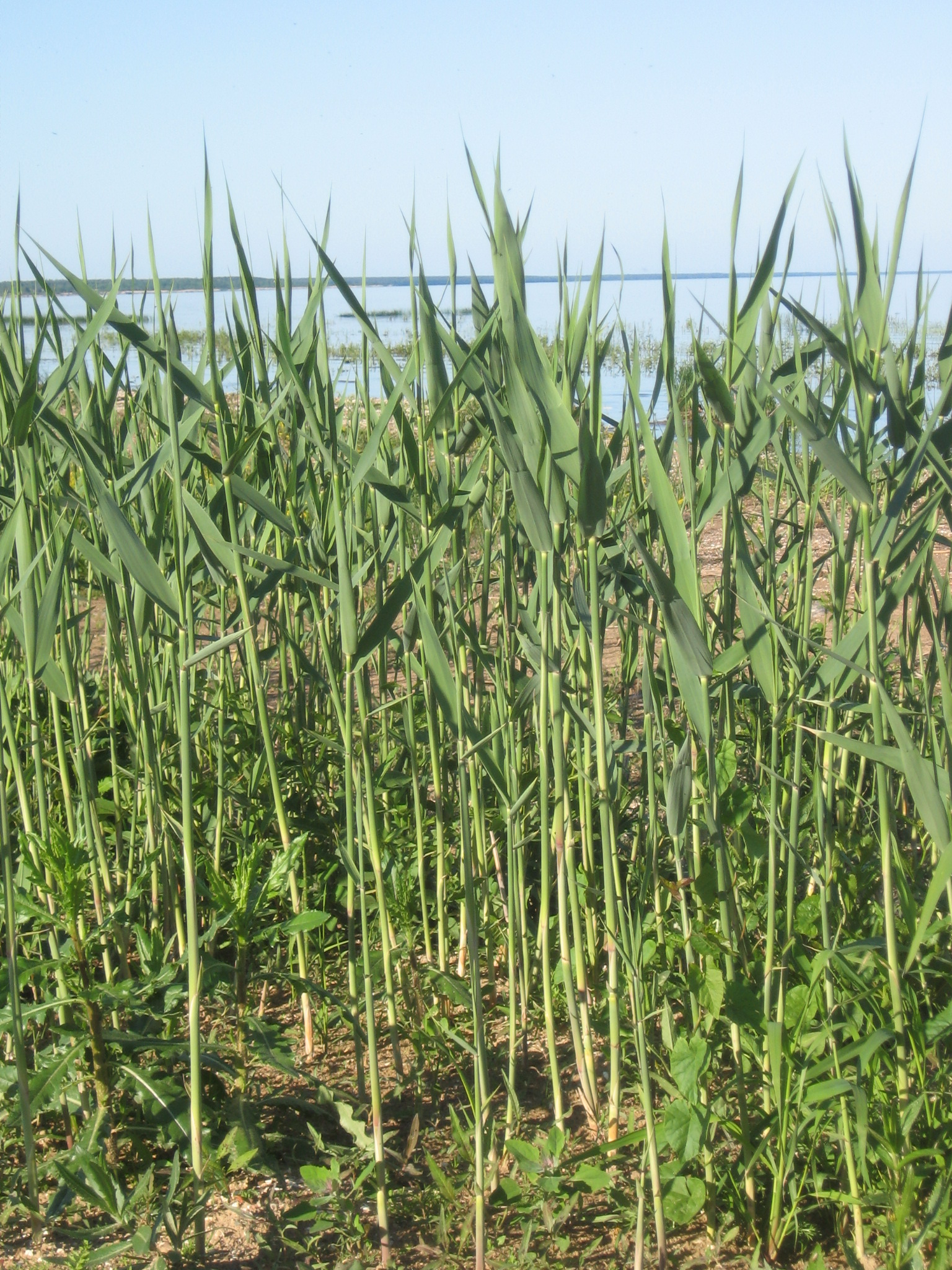 Fragmites communis on the shore of Lake Peipus